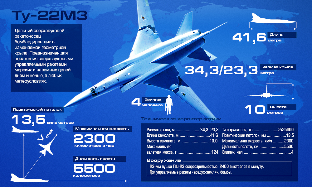 Tu-95 infographic